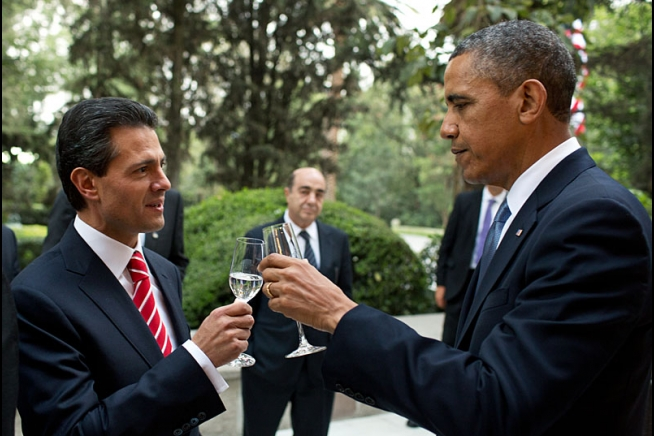 United States President Barack Obama and President Enrique Peña Nieto of Mexico share a toast prior to a working dinner at Los Pinos in Mexico City, Mexico on 2 May 2013.